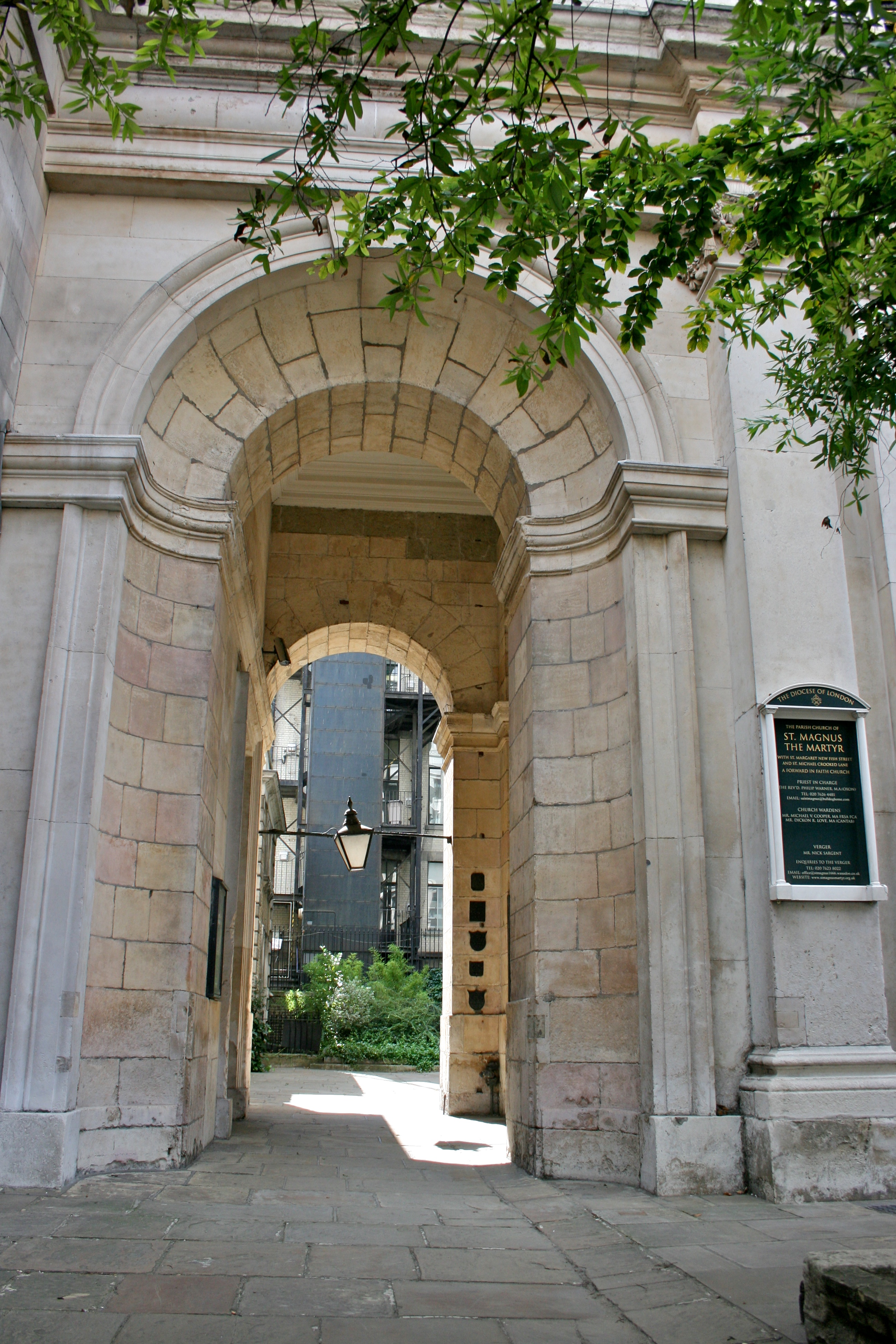 Pathway through the St Magnus-the-Martyr church tower; formerly the route to London Bridge.